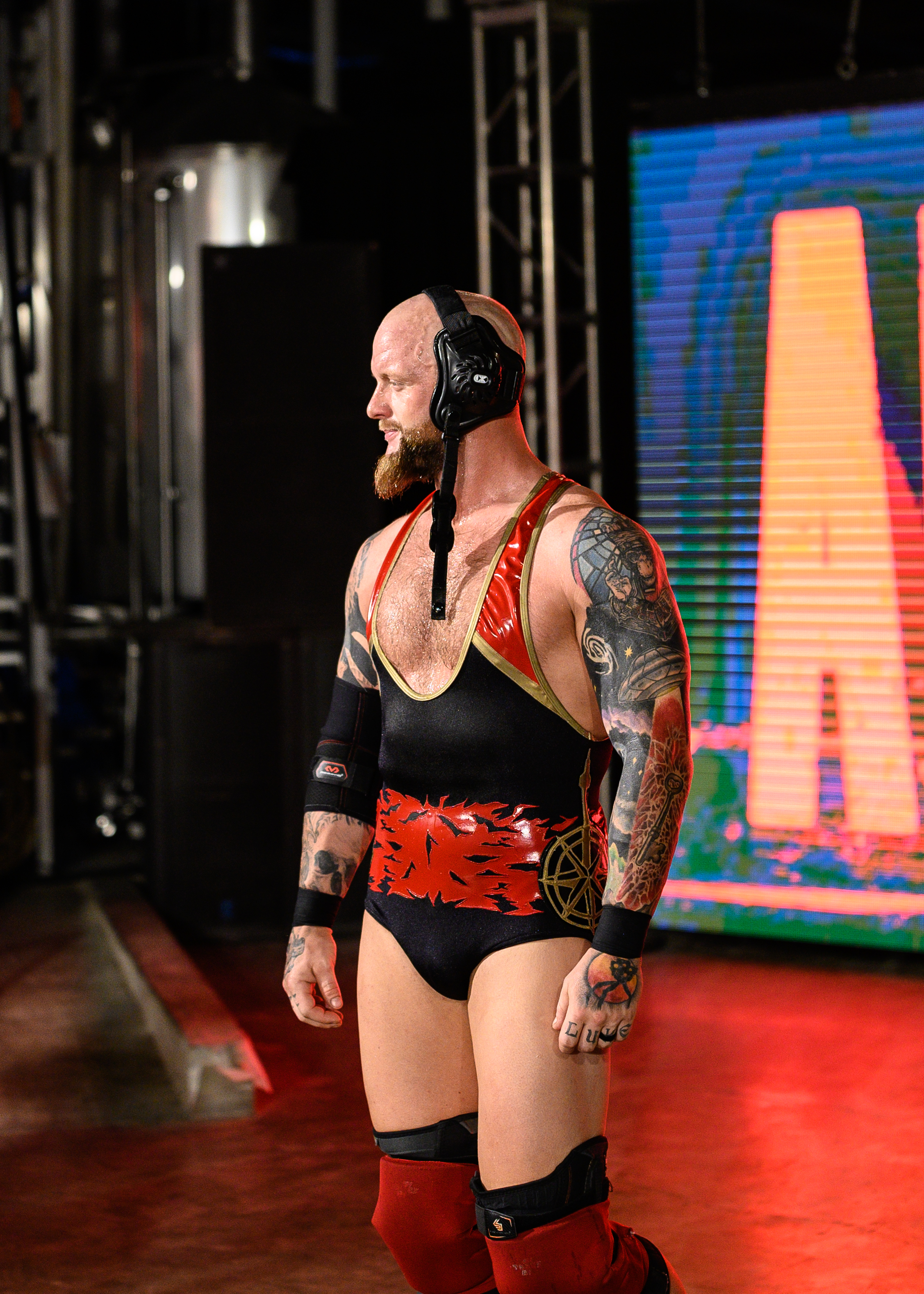 pro wrestler